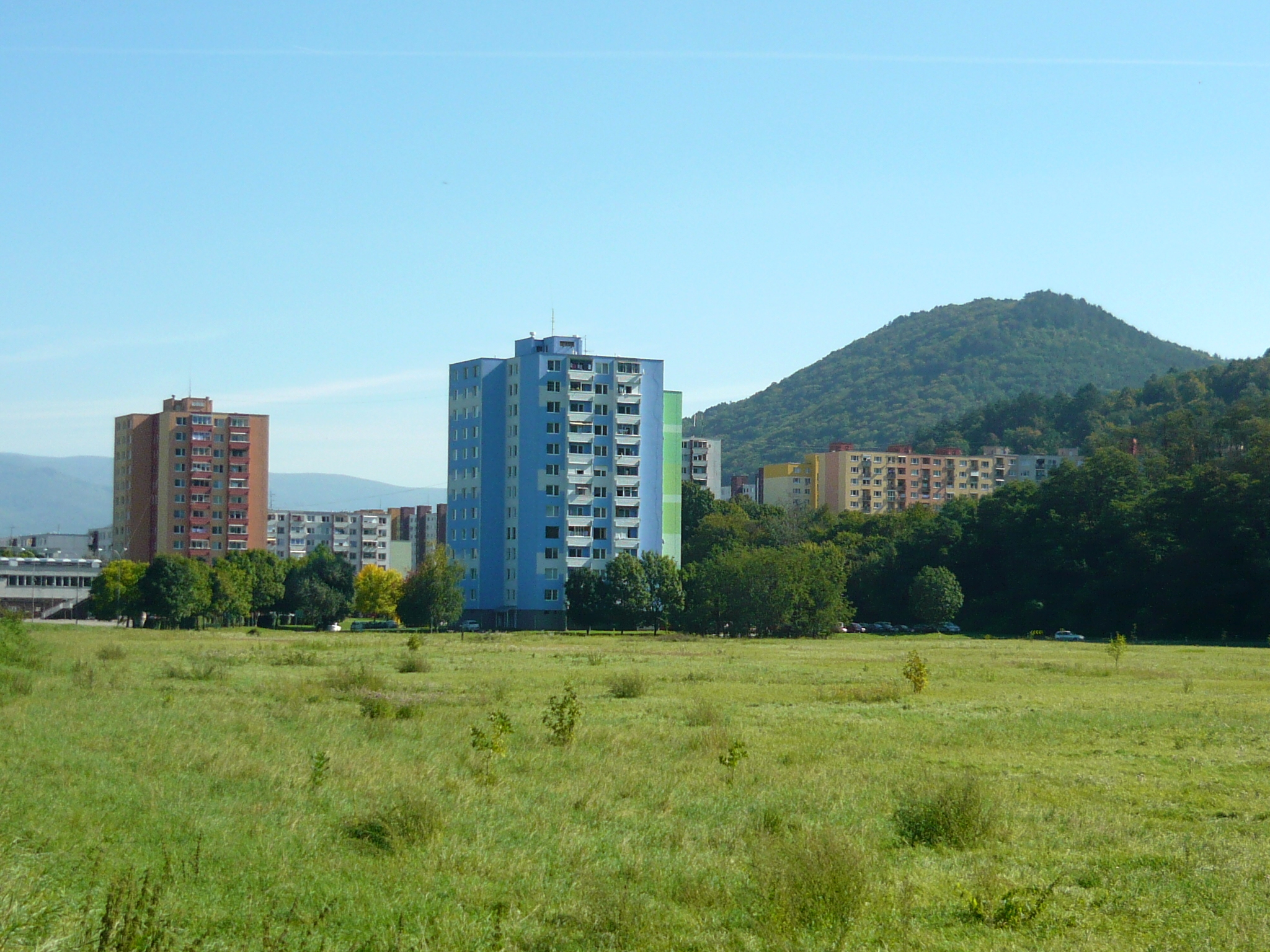 View of Šípok, Partizánske, Slovakia.